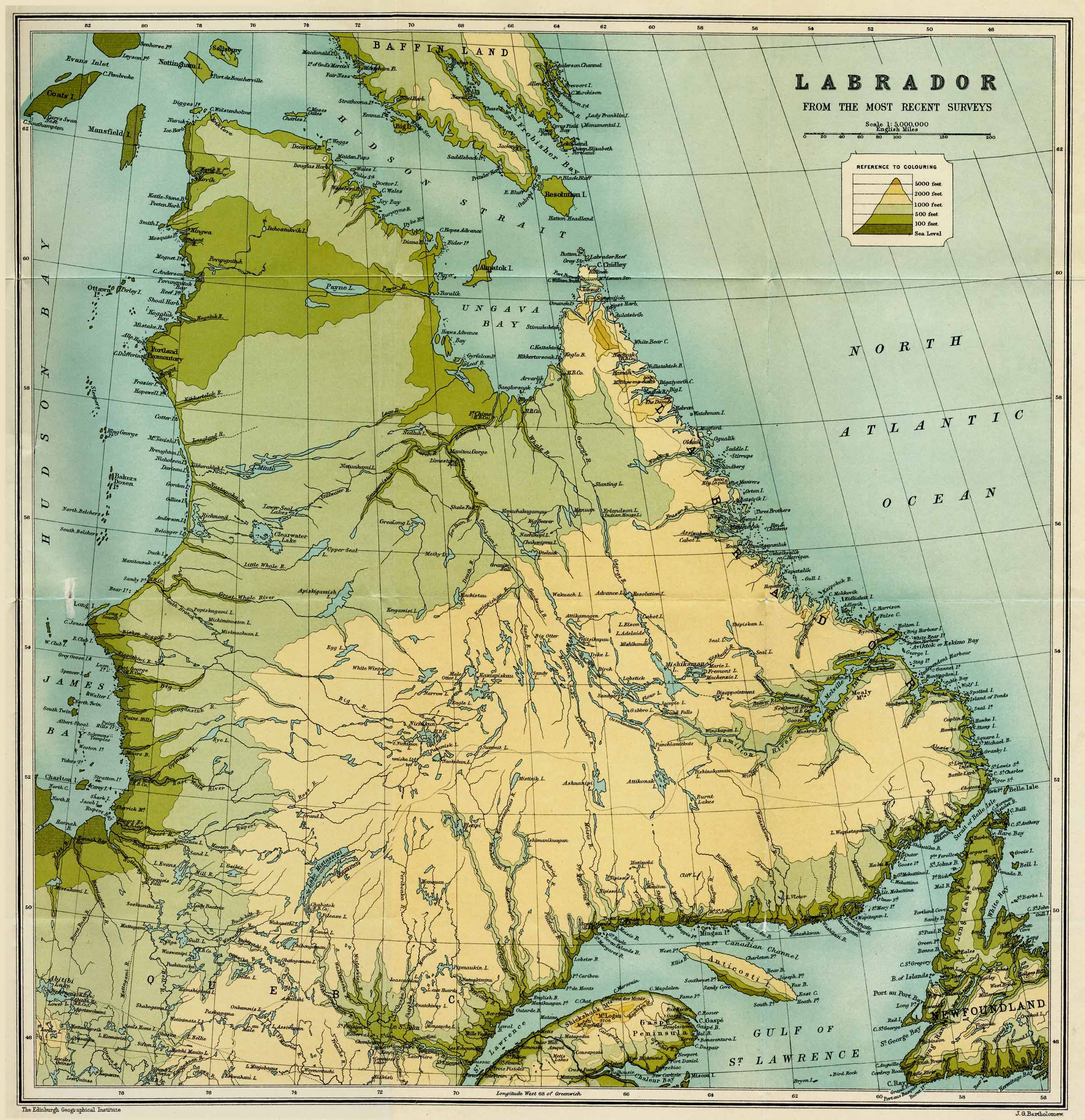 A map of Labrador, Canada, c. 1910